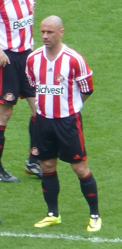 Phillips during the Jody Craddock Testimonial (05.05.2014)